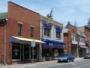 Downtown Acton, Ontario.